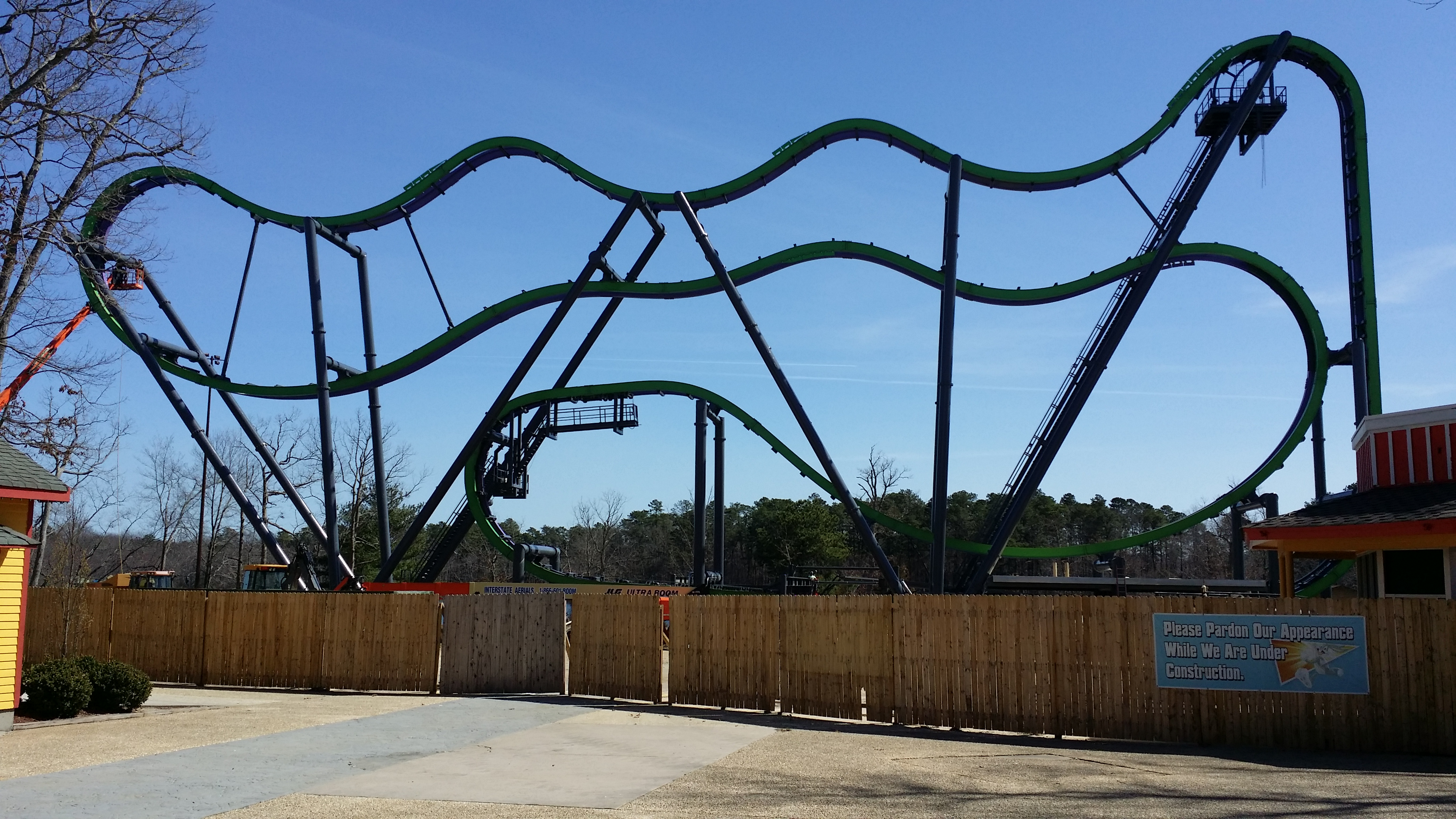 The Joker as it was on March 30th 2016 under construction